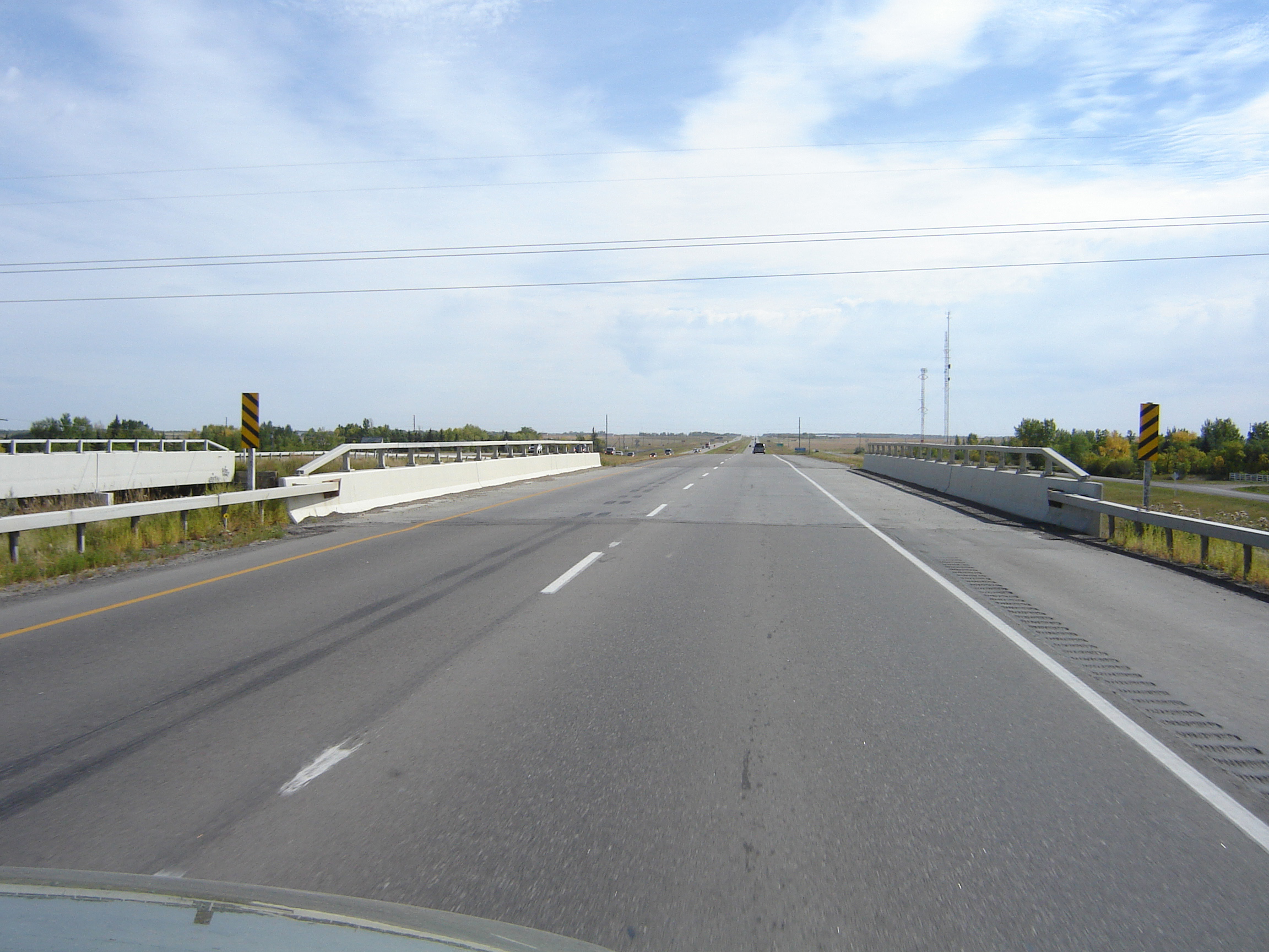 Leaving Regina heading east on the Trans Canada Sk Hwy 1 Saskatchewan